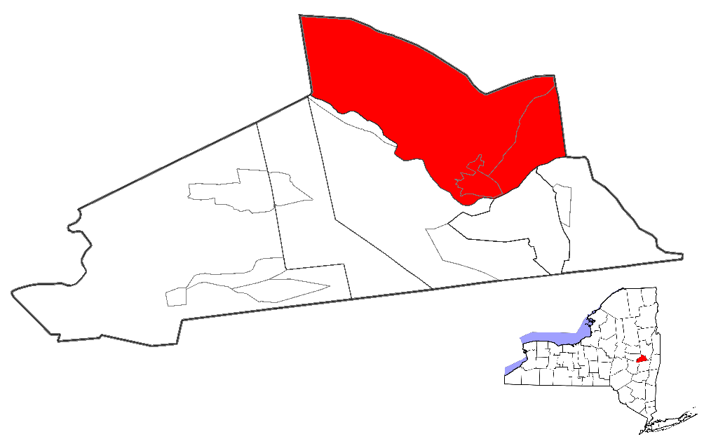 Map of Schenectady County highlighting Glenville